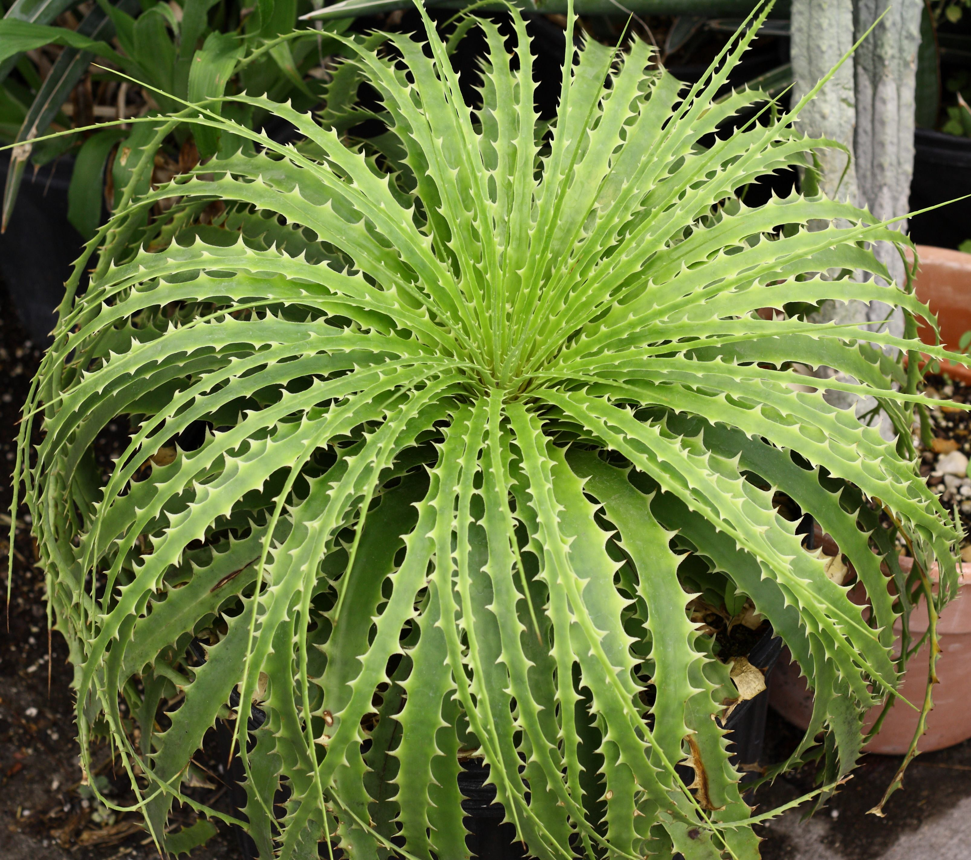 Encholirium horridum at Tropiflora